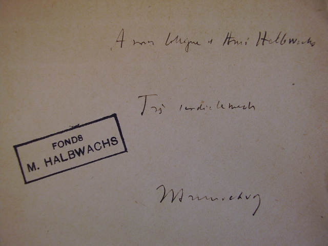 Signature of Léon Brunschvicg on La Raison et la Religion, Paris, Alcan, 1939. This book was offered to Maurice Halbwachs and is now held in the Human and Social Sciences Library Paris Descartes-CNRS